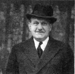 Frederick Handley Page, 1936